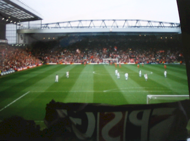 personal snapshot made during the Liverpool-PSG football game in the semi-final of the European Cup Winners' Cup 1997. Liverpool-PSG, CWC semi-final in 1997.